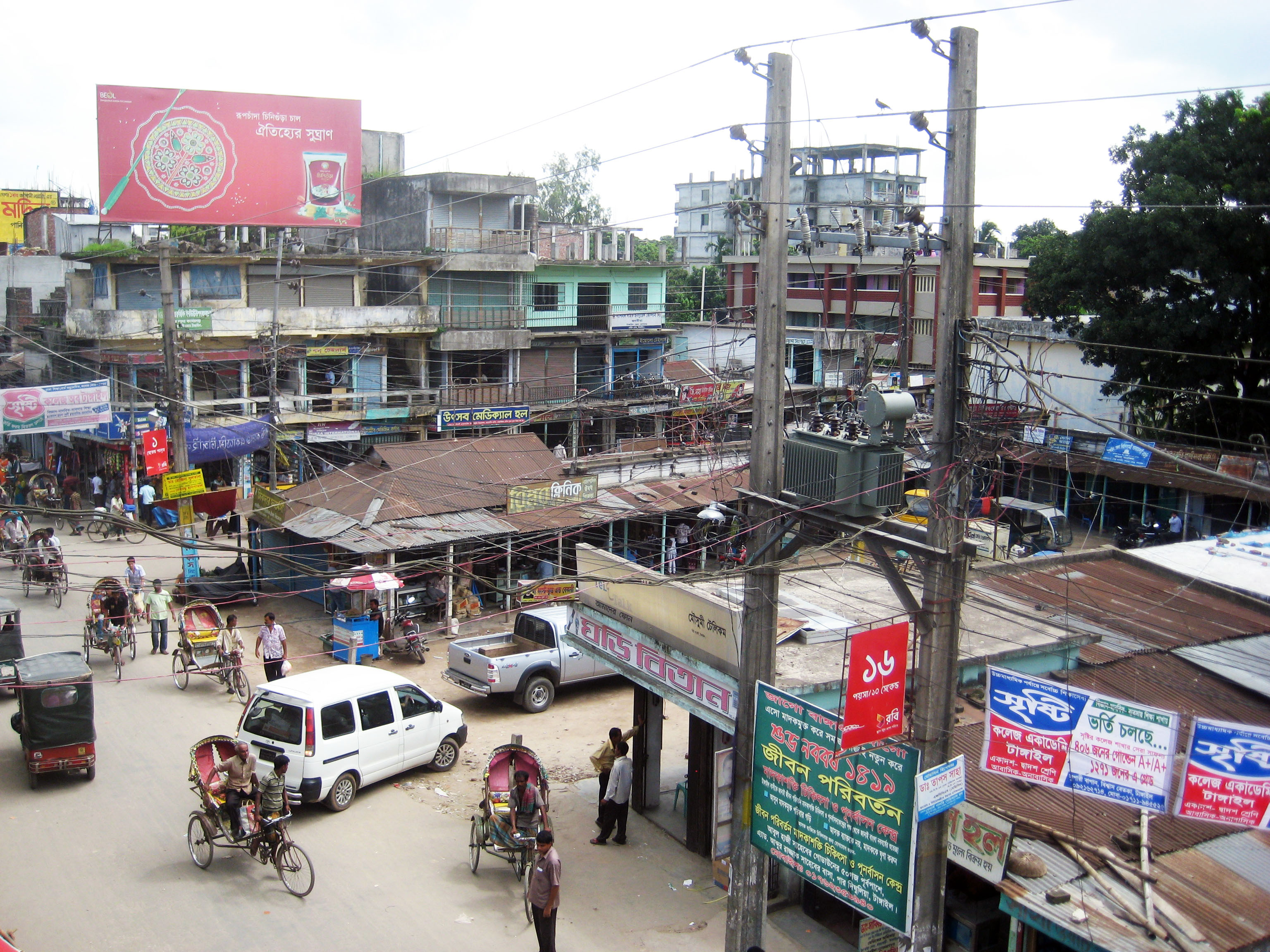 Outdoor market in Tangail, Bangladesh